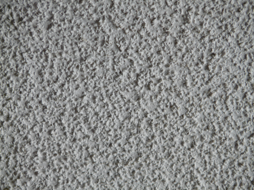 Close up of popcorn ceiling texture